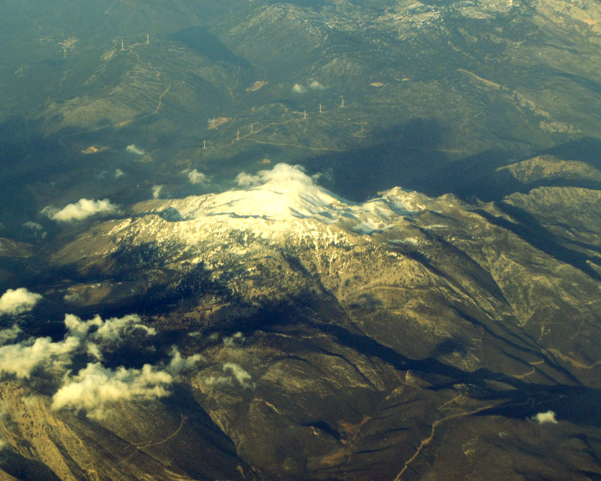 Aerial View of Mount Parnassus